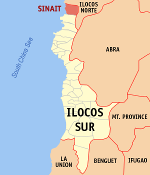 Map of Ilocos Sur showing the location of Sinait